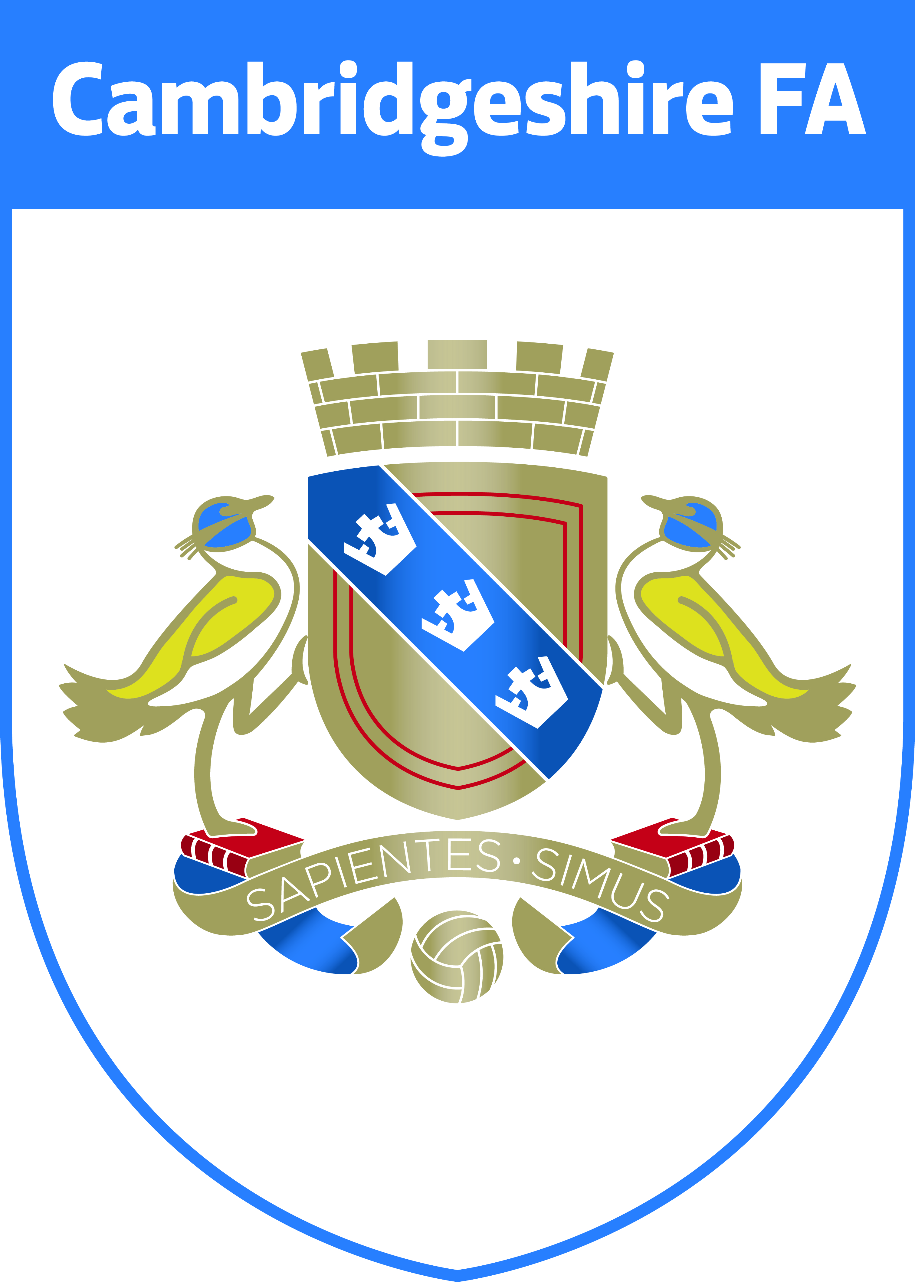 Cambridgeshire FA logo